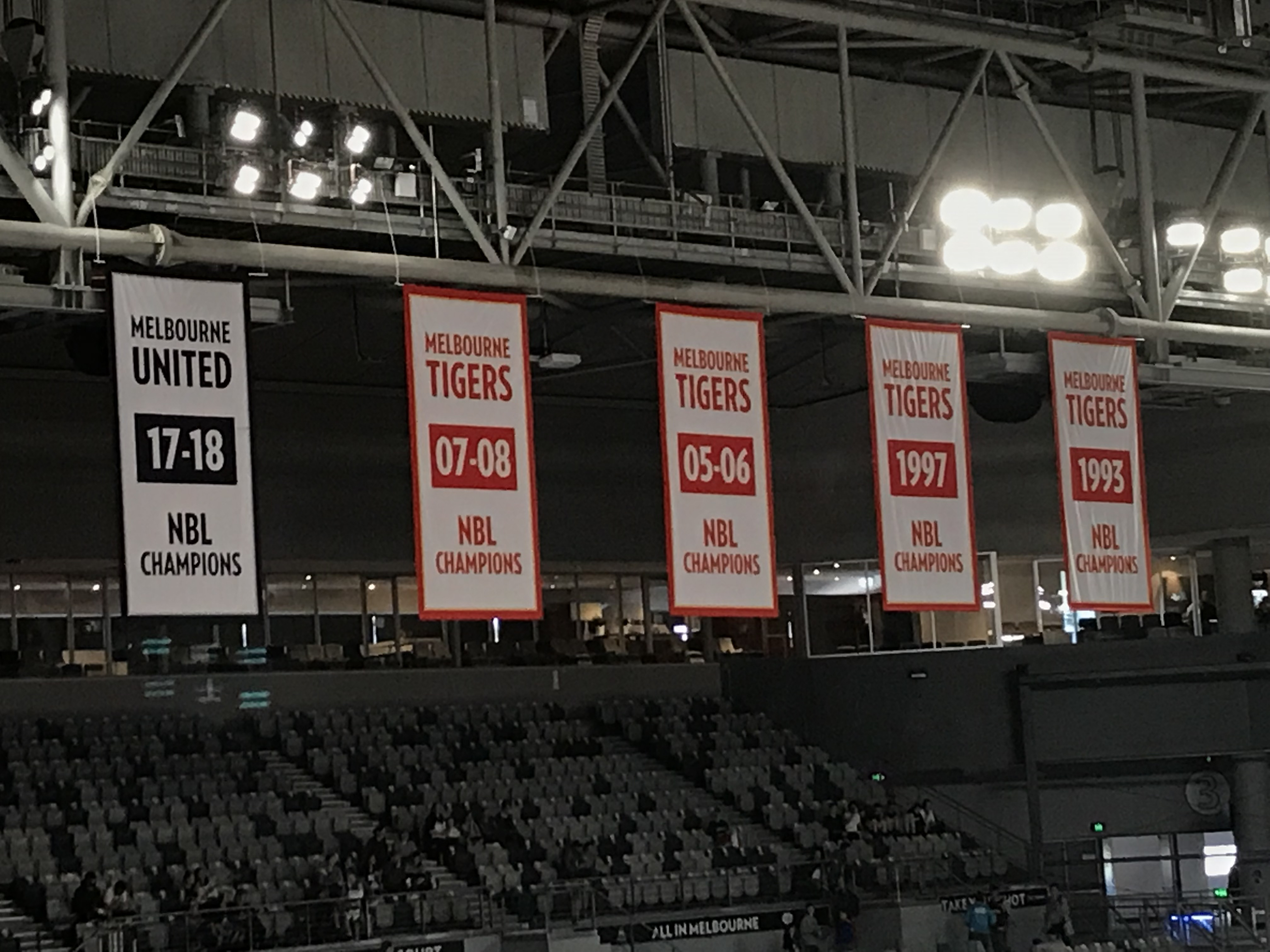 Melbourne's championship banners in 2018.